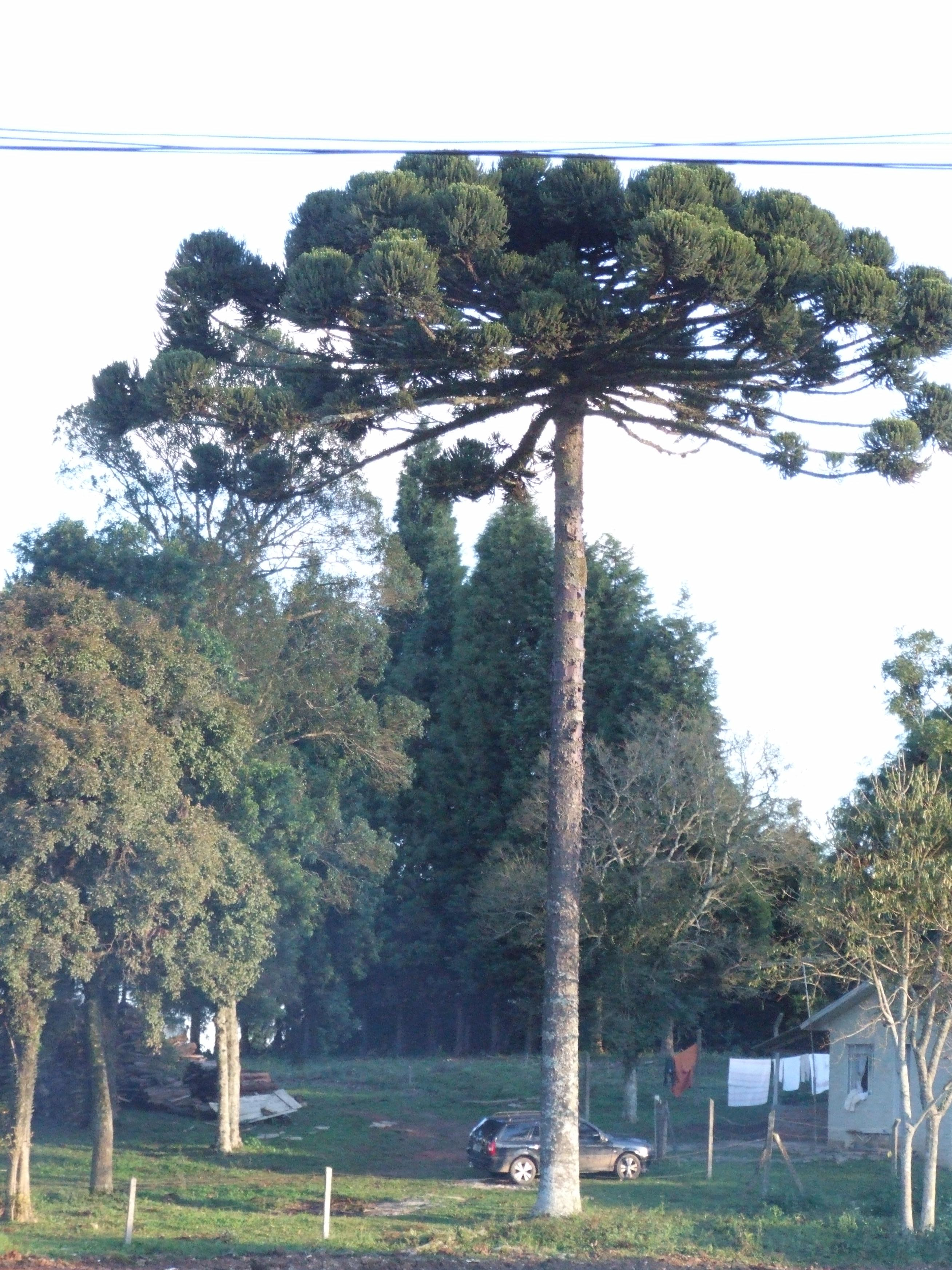 Native vegetation of the Brazilian municipality of Campo Largo, Paraná (Araucaria angustifolia).